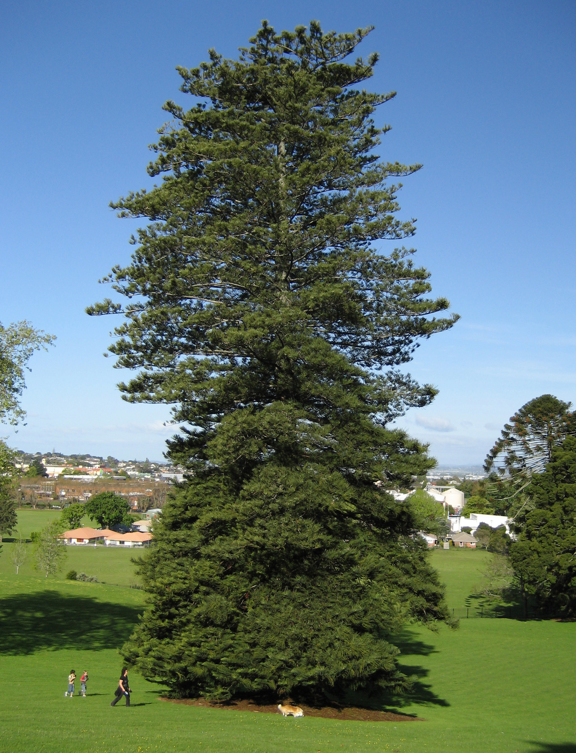 Araucaria heterophylla (Norfolk Island pine), mature specimen, Auckland, New Zealand. Taken at Monte Cecilia Park, Hillsborough, Auckland.